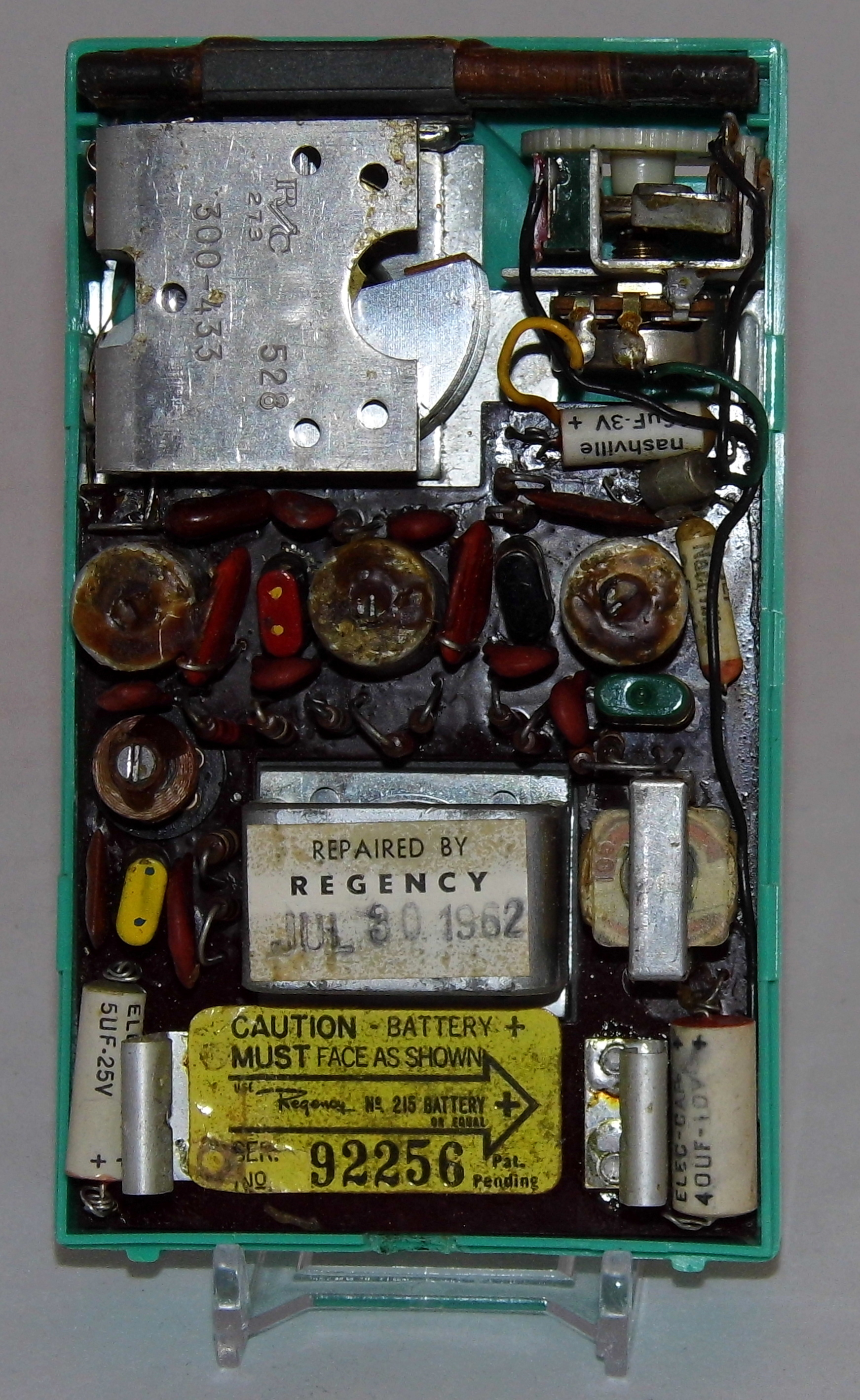 A Factory Repaired Regency TR-1 Transistor Radio With A TR-1G Case, Repair Label Dated July 30, 1962 (Inside View)